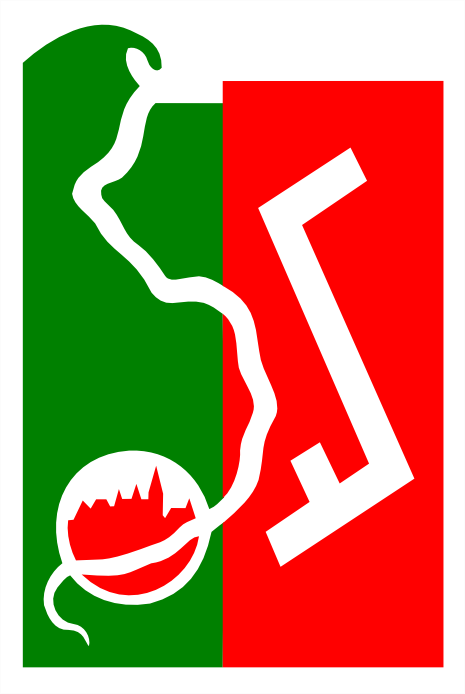 Rodlo_Vistula